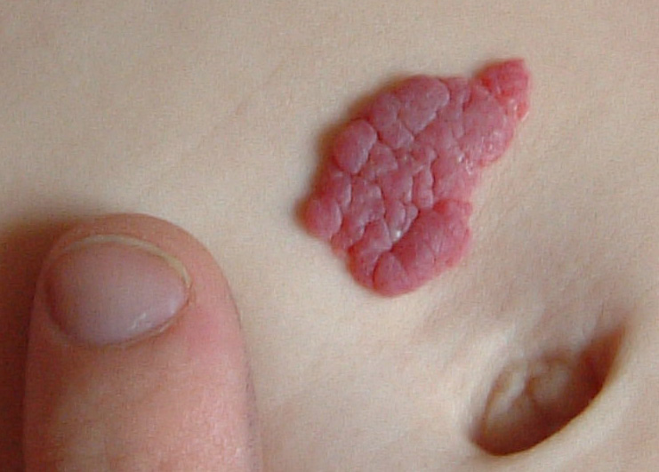 Capillary haemangioma or strawberry birthmark. A common birthmark that fades with age. On the belly of an infant with adult finger for scale.